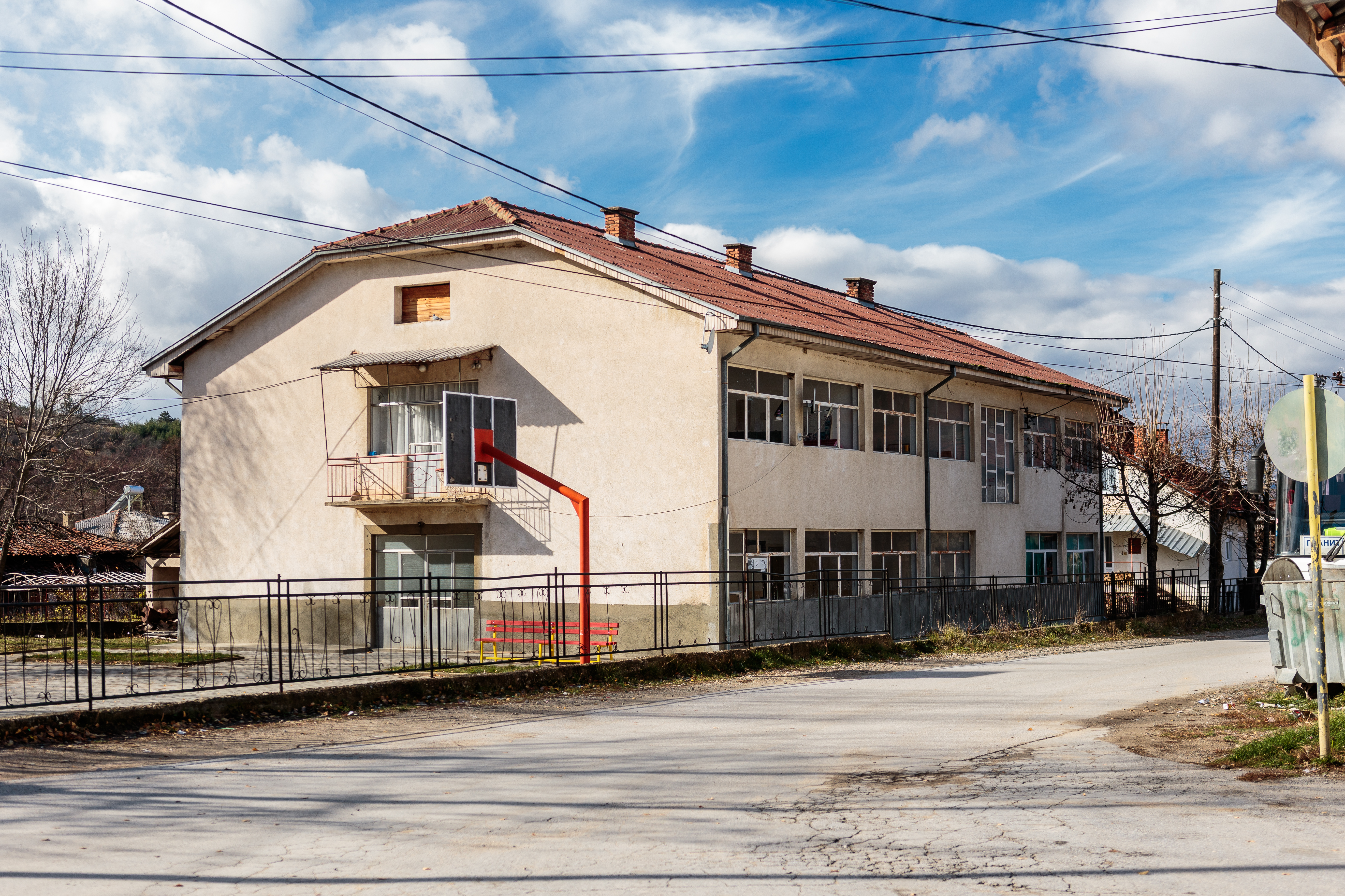 Primary school in the village Ratevo